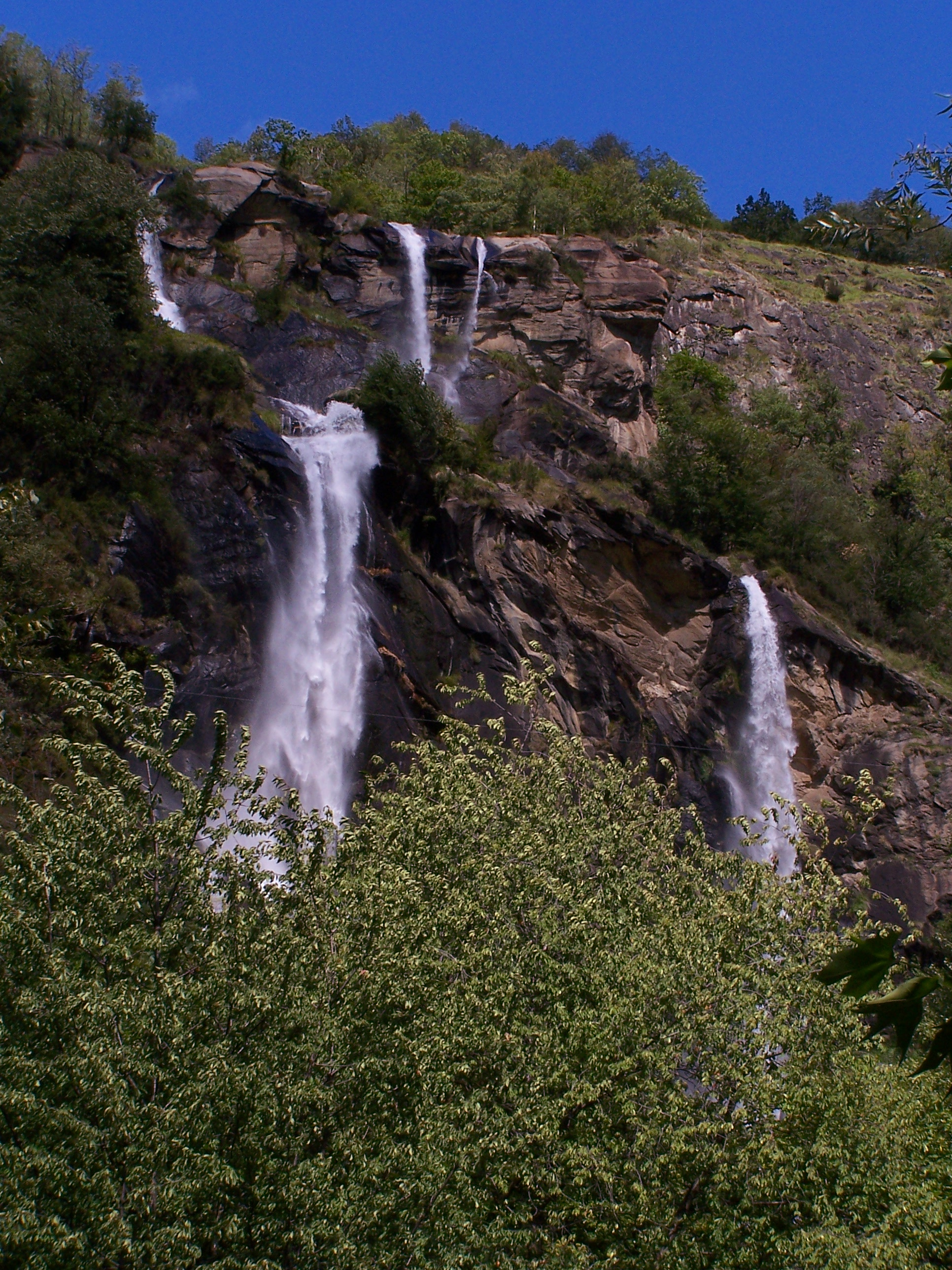 Acquafraggia Waterfall